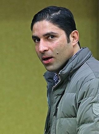 Vahid Hashemian, Iranian football player and manager.